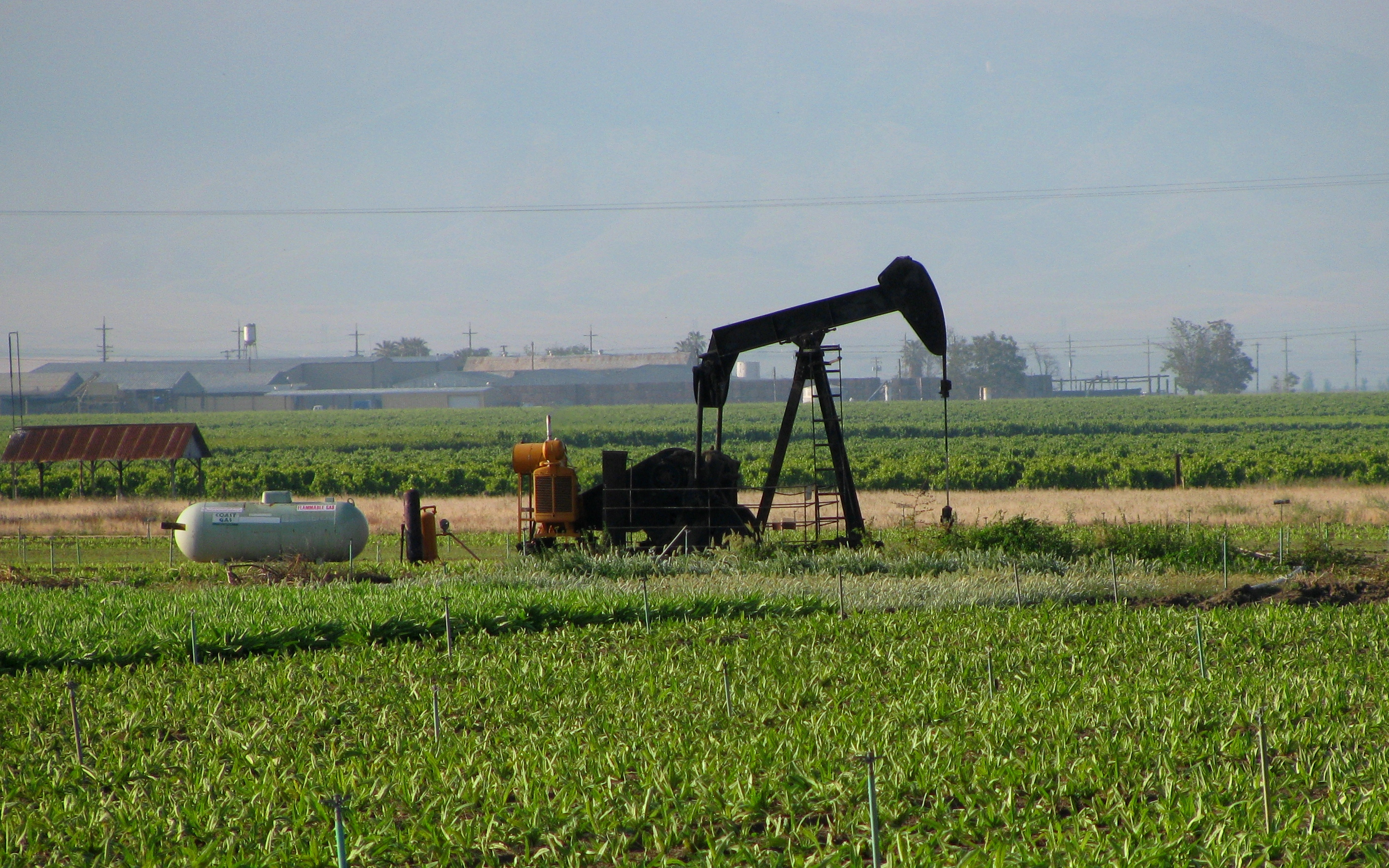 Well within agricultural fields; Mountain View field, near Arvin, CA; photo by self, GFDL/equiv